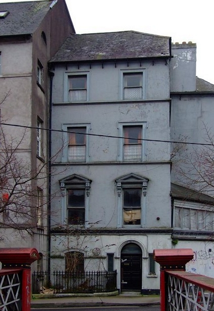 George Boole's House, Bachelor's Quay, Cork City Once the home of philosopher and mathematician, George Boole. Now in a sorry state.